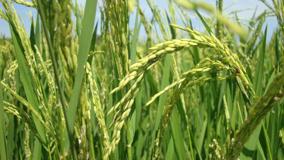 Paddy is cultivated inVEDAL with the water from VEDAL biglake ang Well Irrigation.